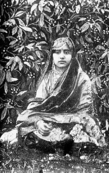 Ghazal singer, Malika Pukhraj (1912-2004) in 1920s, in her teens, when she was court singer, at the royal courts of Maharaja Hari Singh of Kashmir.